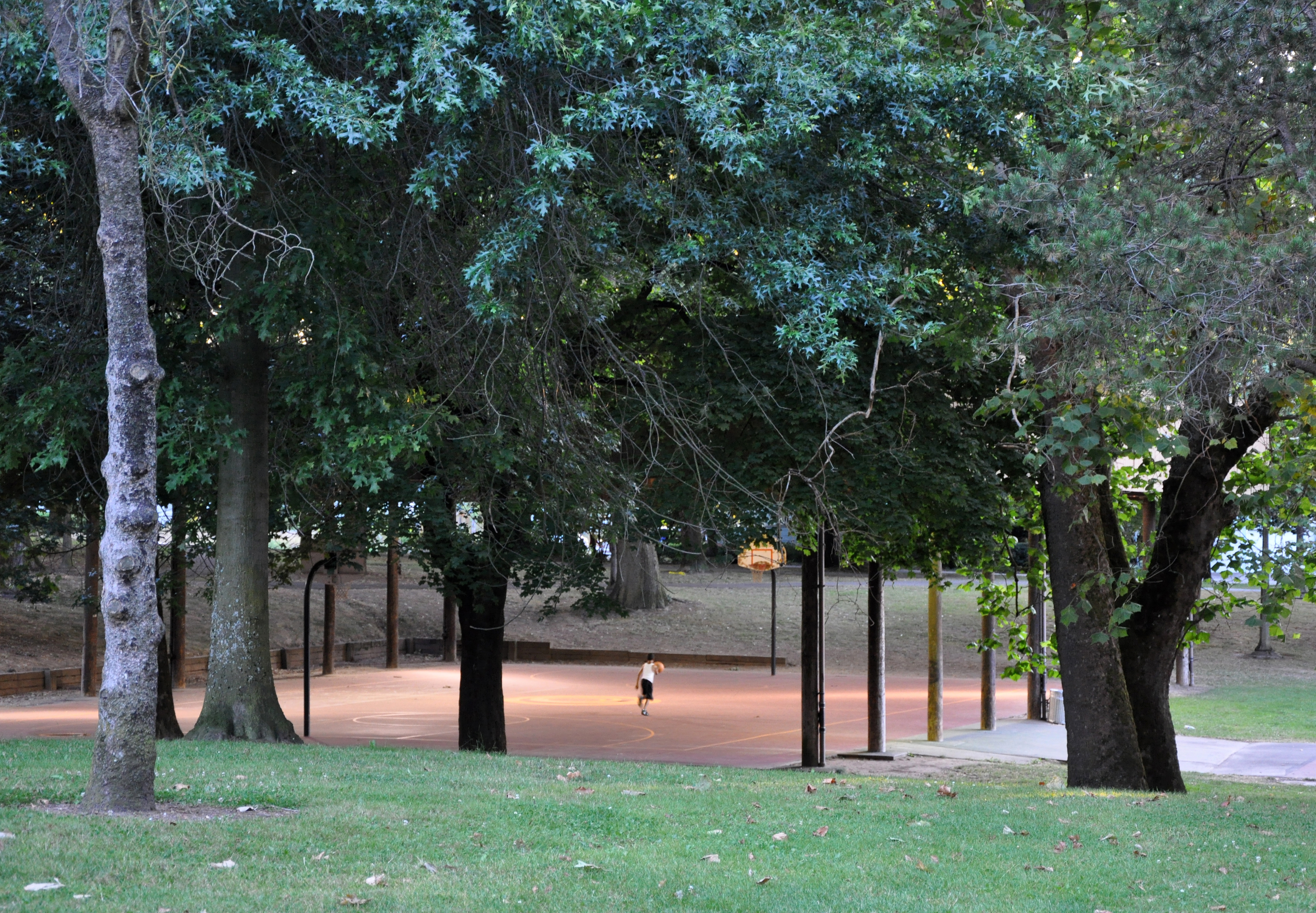 Irving Park in northeast Portland, Oregon, in the United States